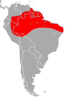 White-winged Dog-like Bat (Peropteryx leucoptera) range